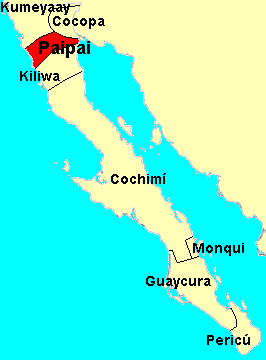 location map created by article's author